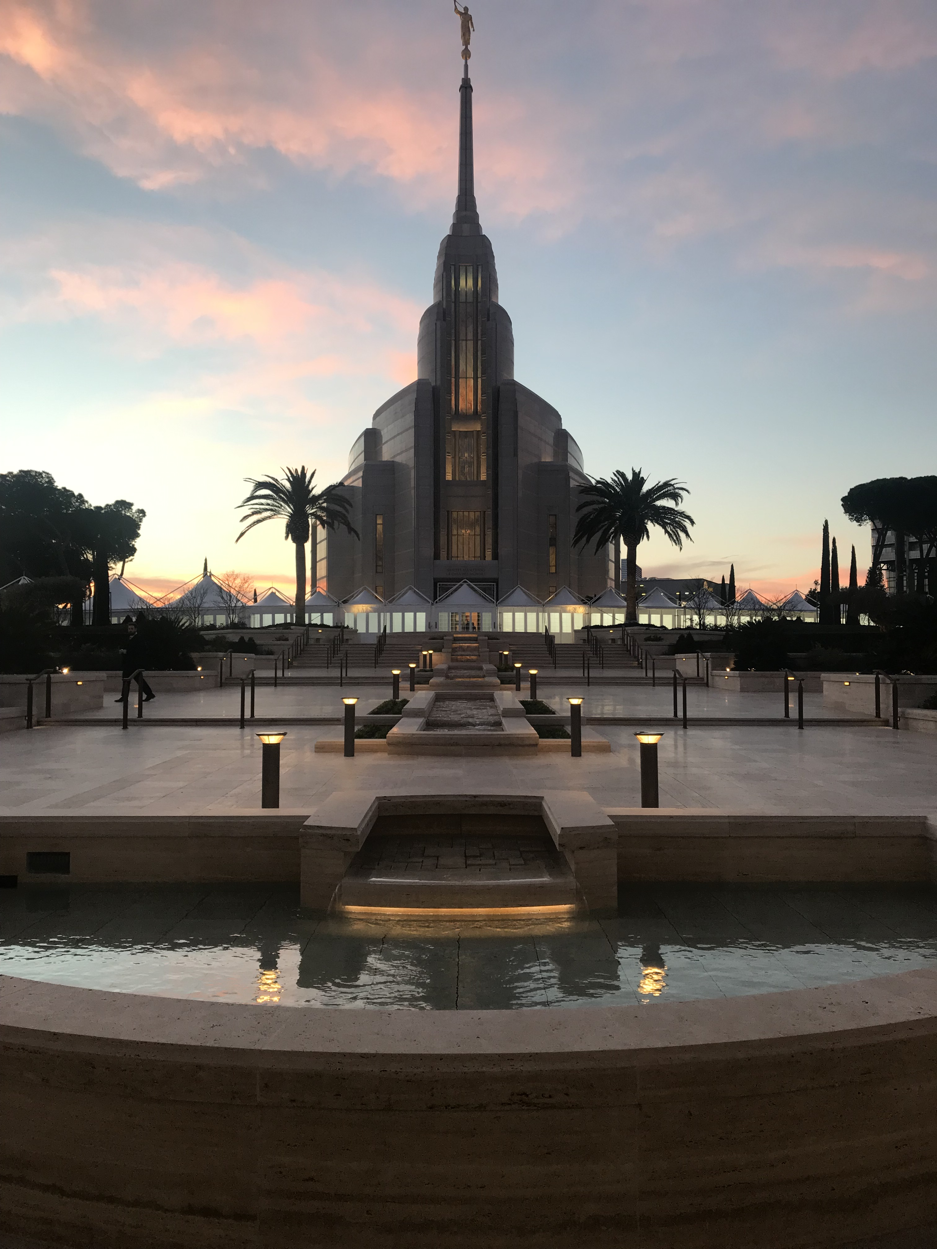 Rome Italy LDS Temple at sunset during the open house.